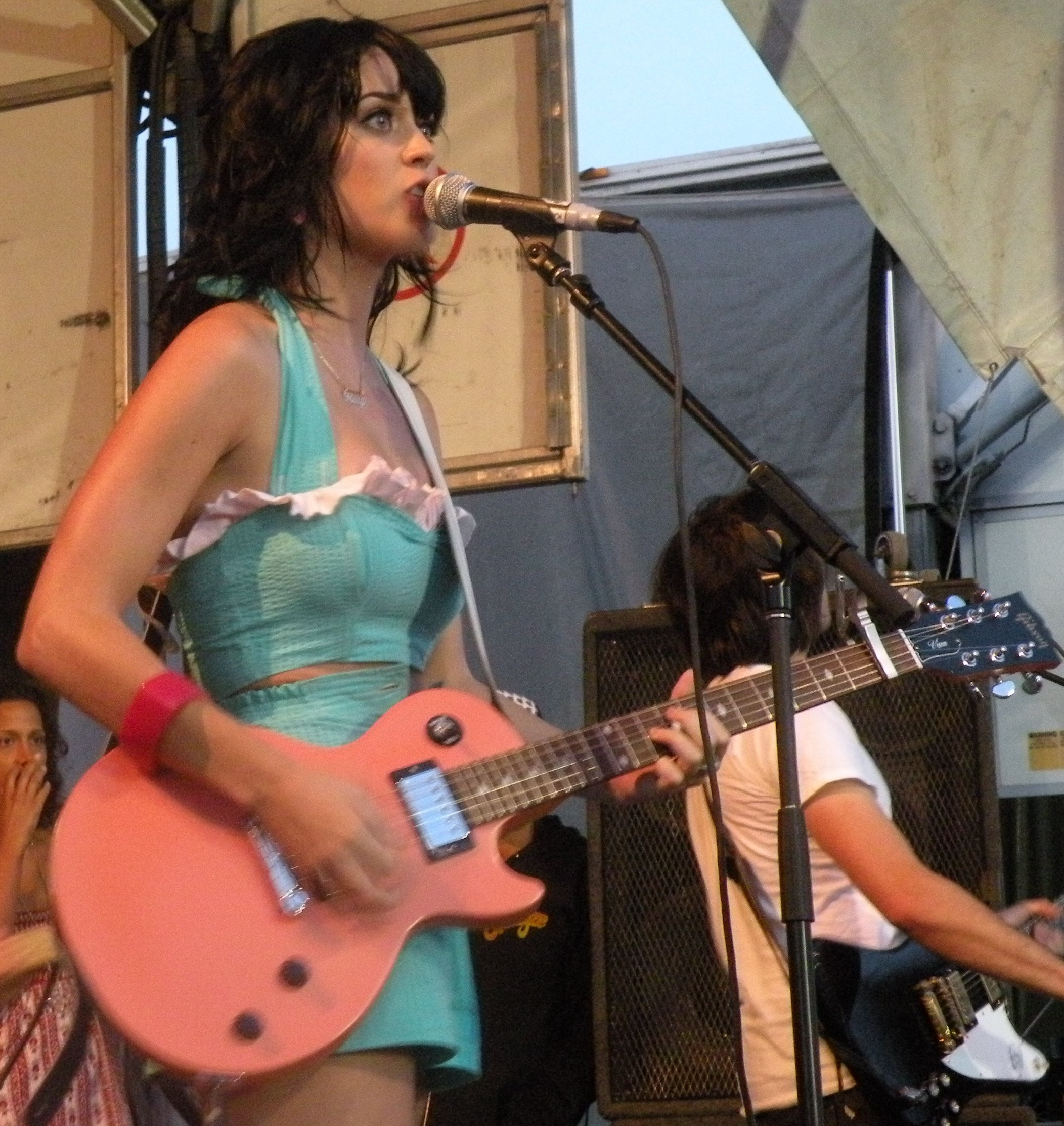 Singer-songwriter Katy Perry during Warped Tour 2008 in Uniondale, New York. Taken with a Nikon Coolpix P80.